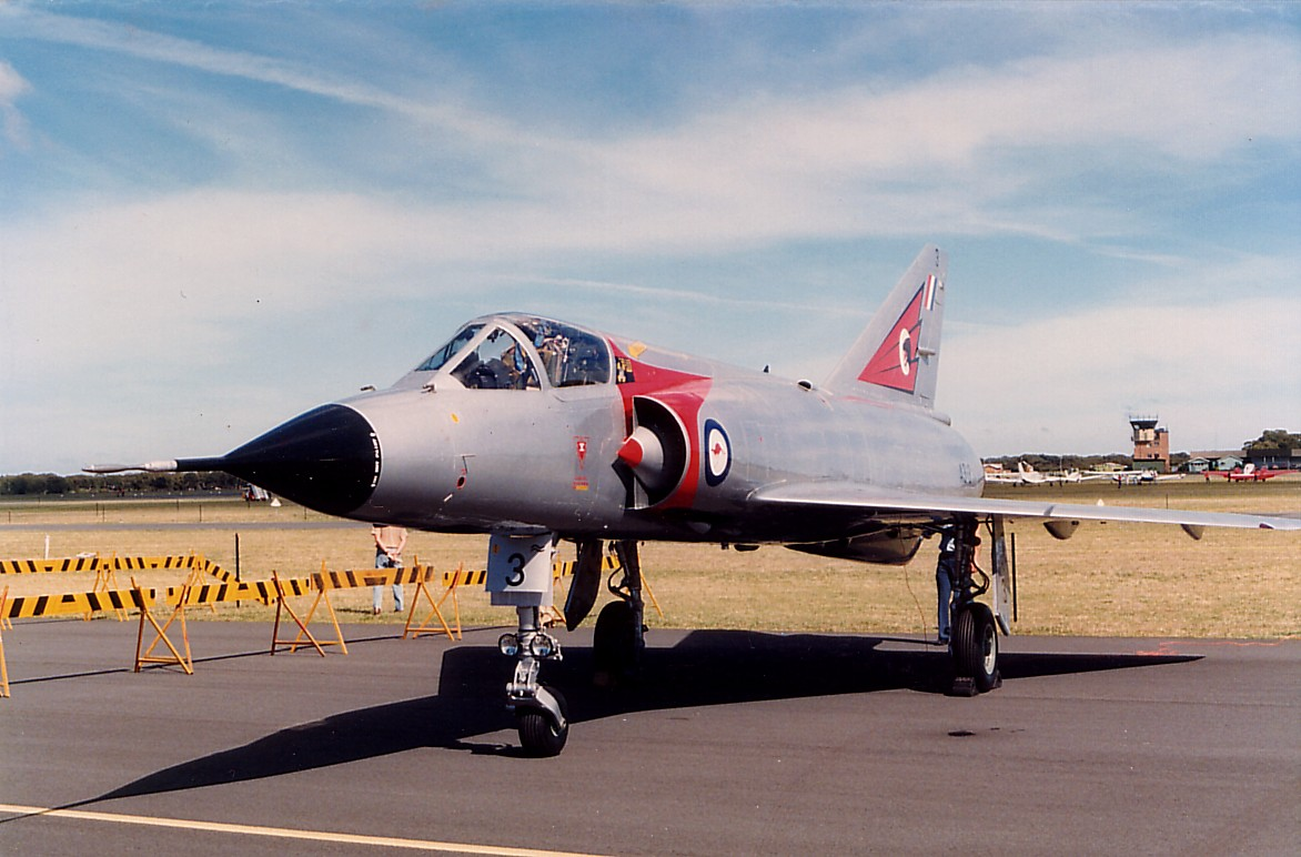 76 Squadron Mirage III photographed at an open day at RAAF Base Williamtown